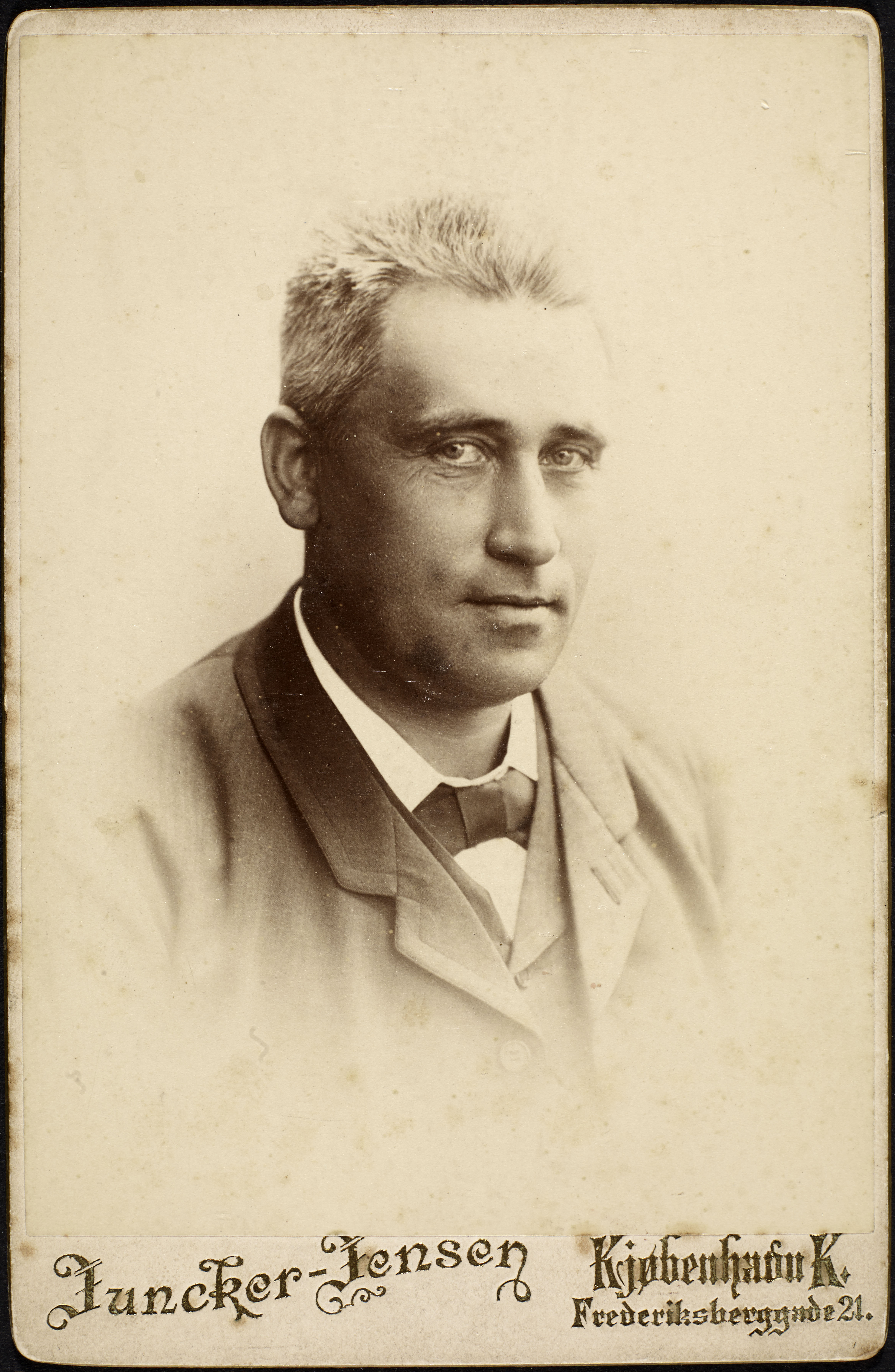 Benjamin Pedersen (04-04-1851 - 06-04-1908) Danish actor Photo dated 1891 1960-508_88